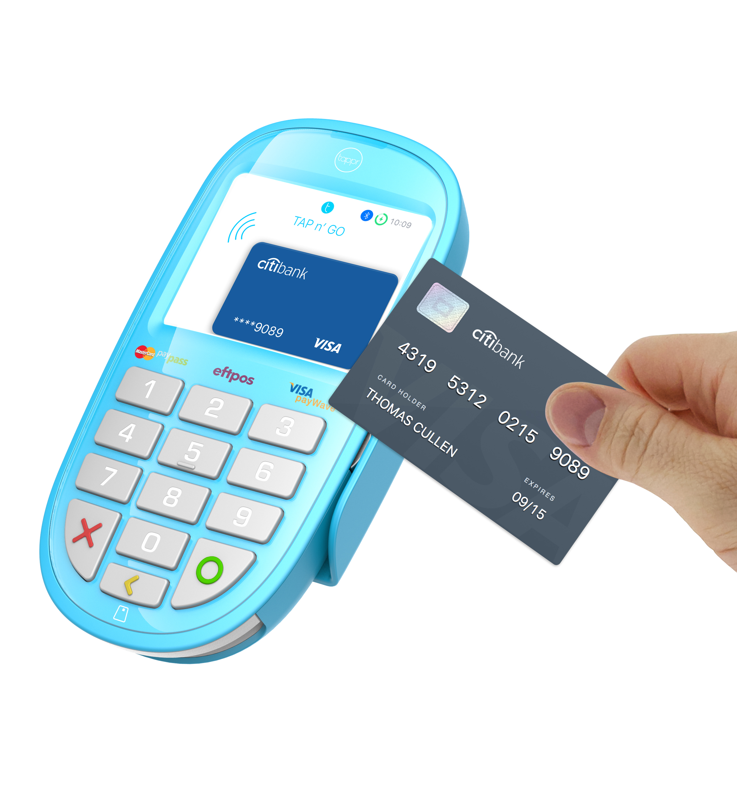 Tappr Card Reader NFC